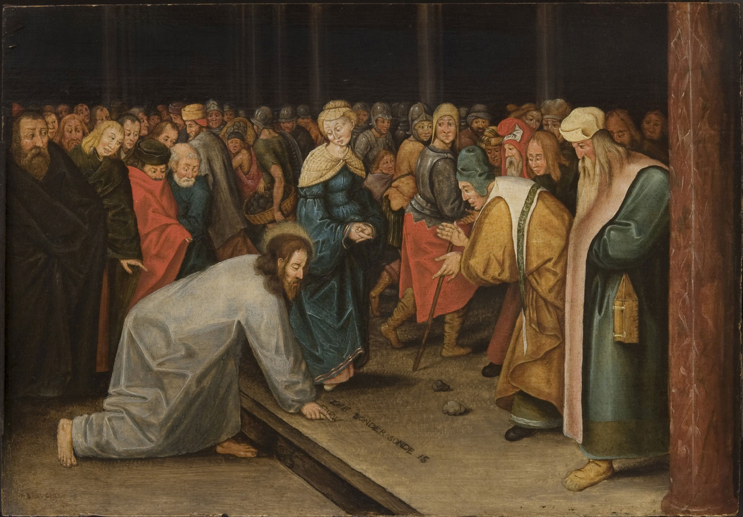 When he meets the Adulteress, Jesus writes: "He that is without sin". Based on a painting by Pieter Bruegel the Elder, in the Courtauld Institute Galleries, London (The Princes Gate Collection, 9), 1565, grisaille